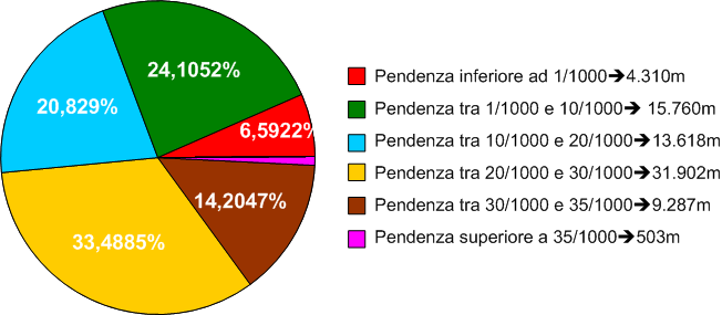 Diagram of Ferrovia delle Dolomiti slope